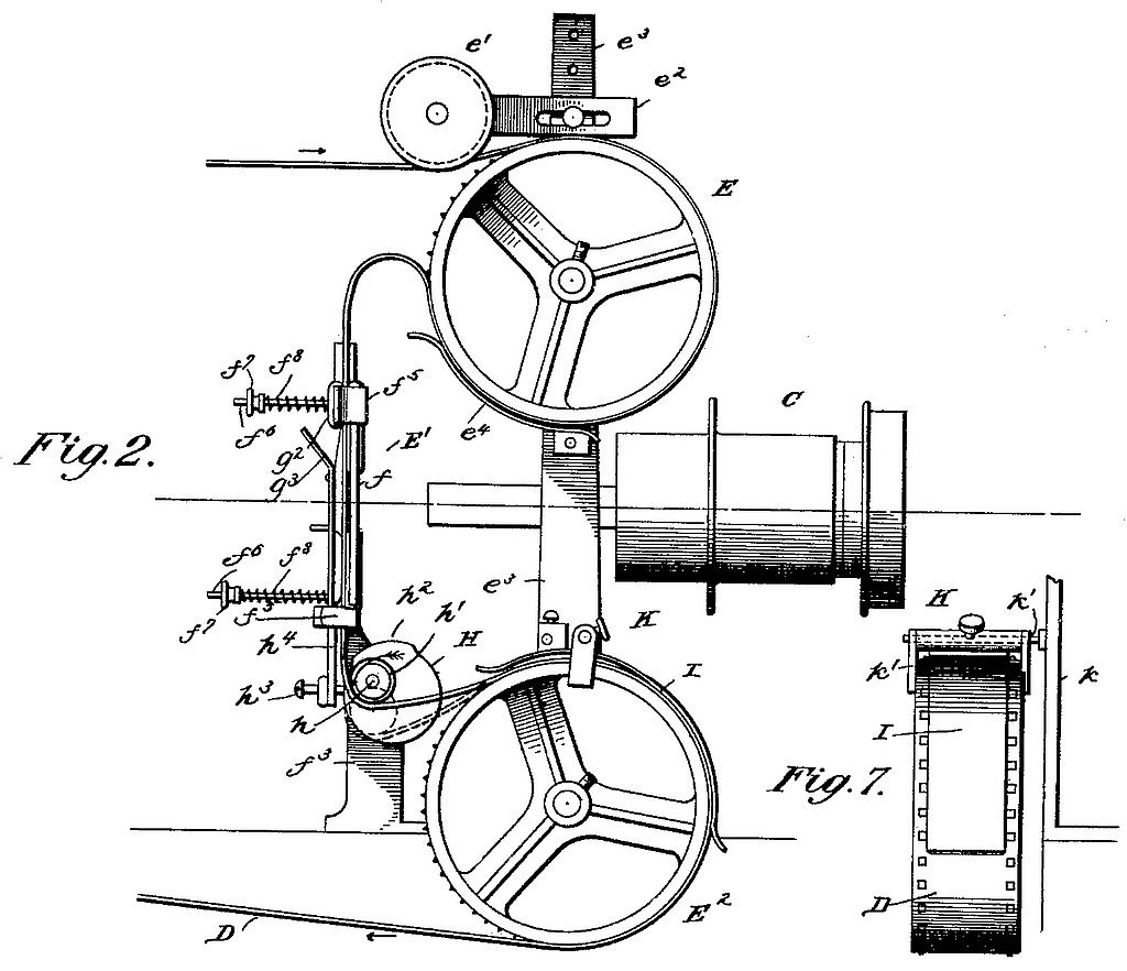 This is a drawing of the device patented in a patent discussed in United States v. Motion Picture Patents Co. and related litigation Other information This file is from a US patent